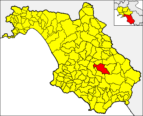 Locator map of the municipality of Piaggine (red) within the Province of Salerno